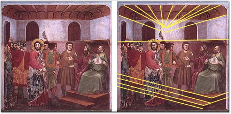 Fig. 2A. ‘Jesus Before the Caïf’, by Giotto (1305). The ceiling rafters show the Giotto’s introduction of convergent perspective. B. Detailed analysis, however, reveals that the ceiling has an inconsistent vanishing point and that the Caïf’s dais is in parallel perspective, with no vanishing point.